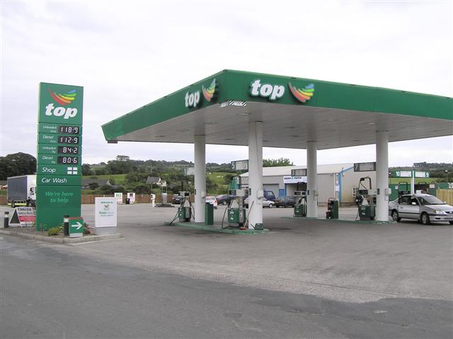 Filling Station at Hunterstown, Co. Donegal. It is located over the border from the village of Clady in County Tyrone. Fuel here is much cheaper and motorists from Northern Ireland make a bee-line from filling stations in similar locations. As a result, many petrol stations close to the border areas in the "North" have found it difficult to compete and have had to go out of business. The price difference can be up to 11p per litre for unleaded petrol.